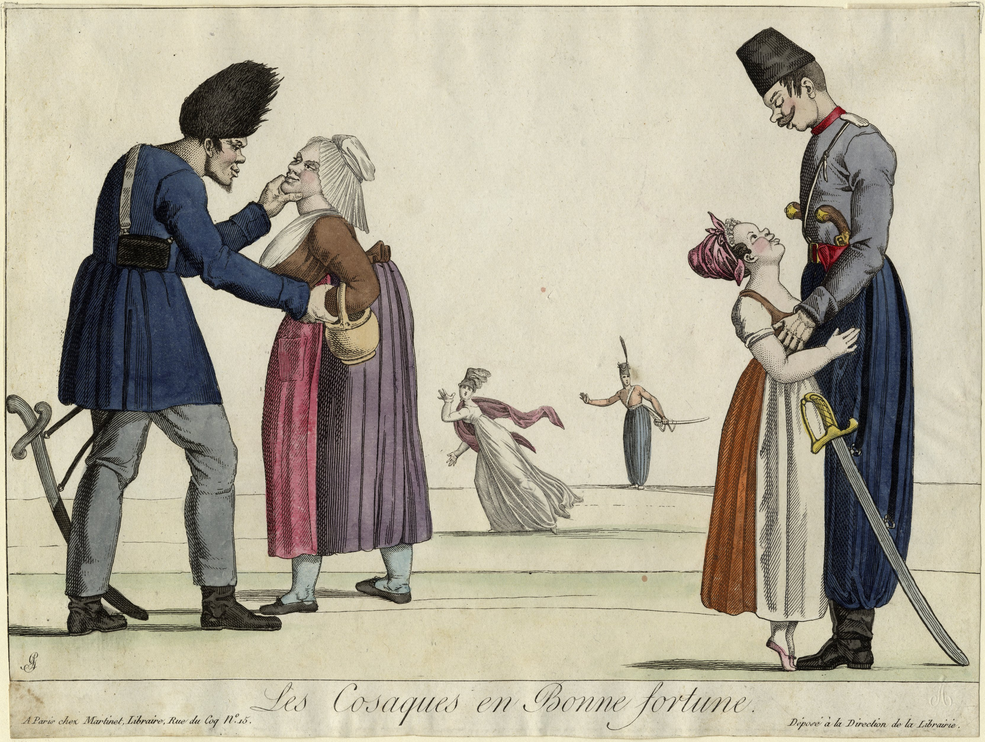 Hand-colored engraved caricature by and after Ambroise Garneray (?); 2 cossacks in foreground fondling kitchenmaids, outdoors, lady fleeing from advance of cossack in background.